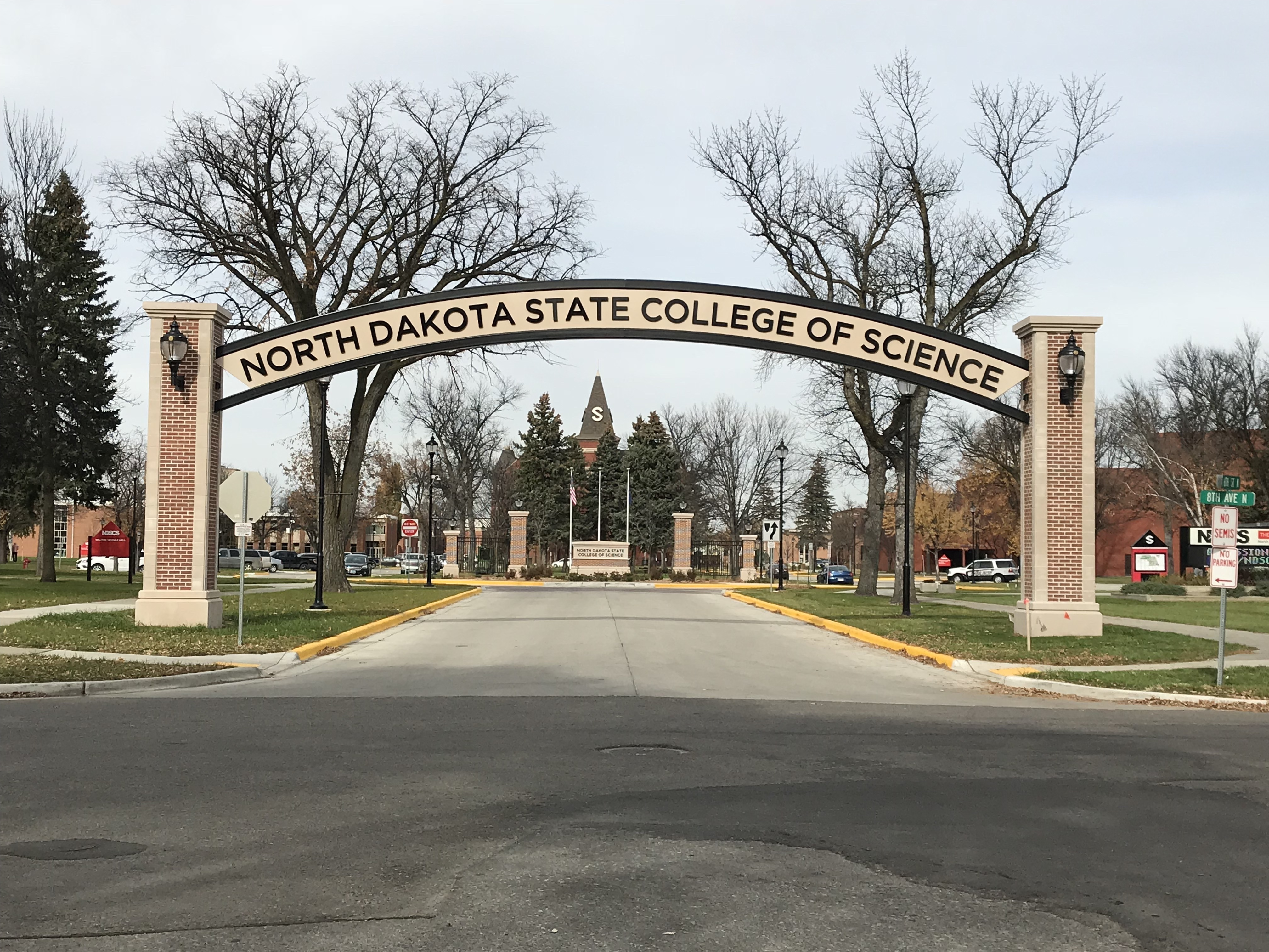 Main Entrance at campus in Wahpeton, North Dakota.